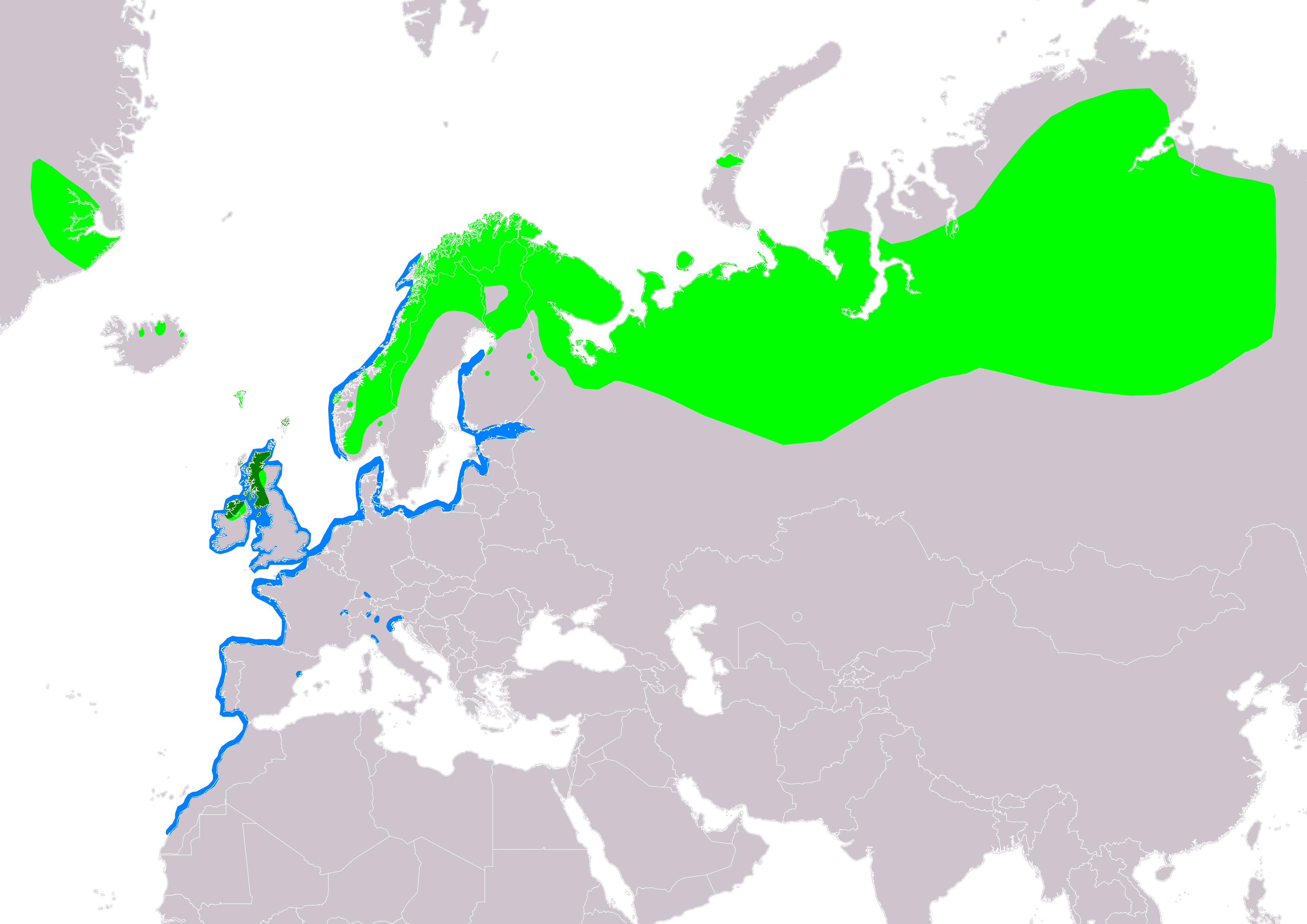 Distribution map of common scoter (Melanitta nigra) according to IUCN version 2019-2 ; key: Legend: Extant, breeding (#00FF00), Extant, resident (#008000), Extant, non-breeding (#007FFF)